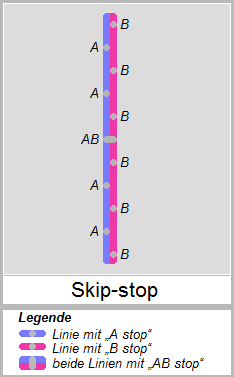 schematical image of skip stop traffics on underground/subway/metro routes